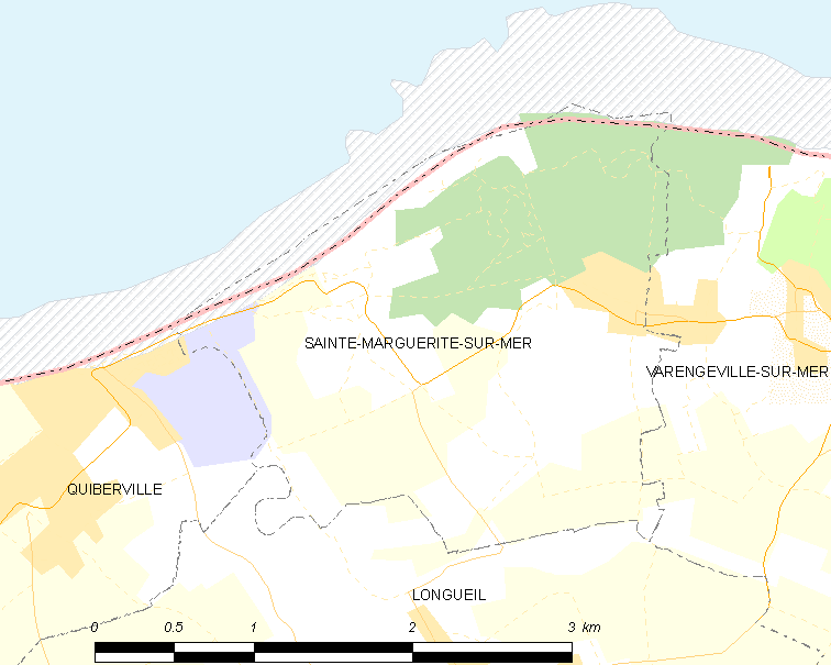 Map of French municipality Sainte-Marguerite-sur-Mer